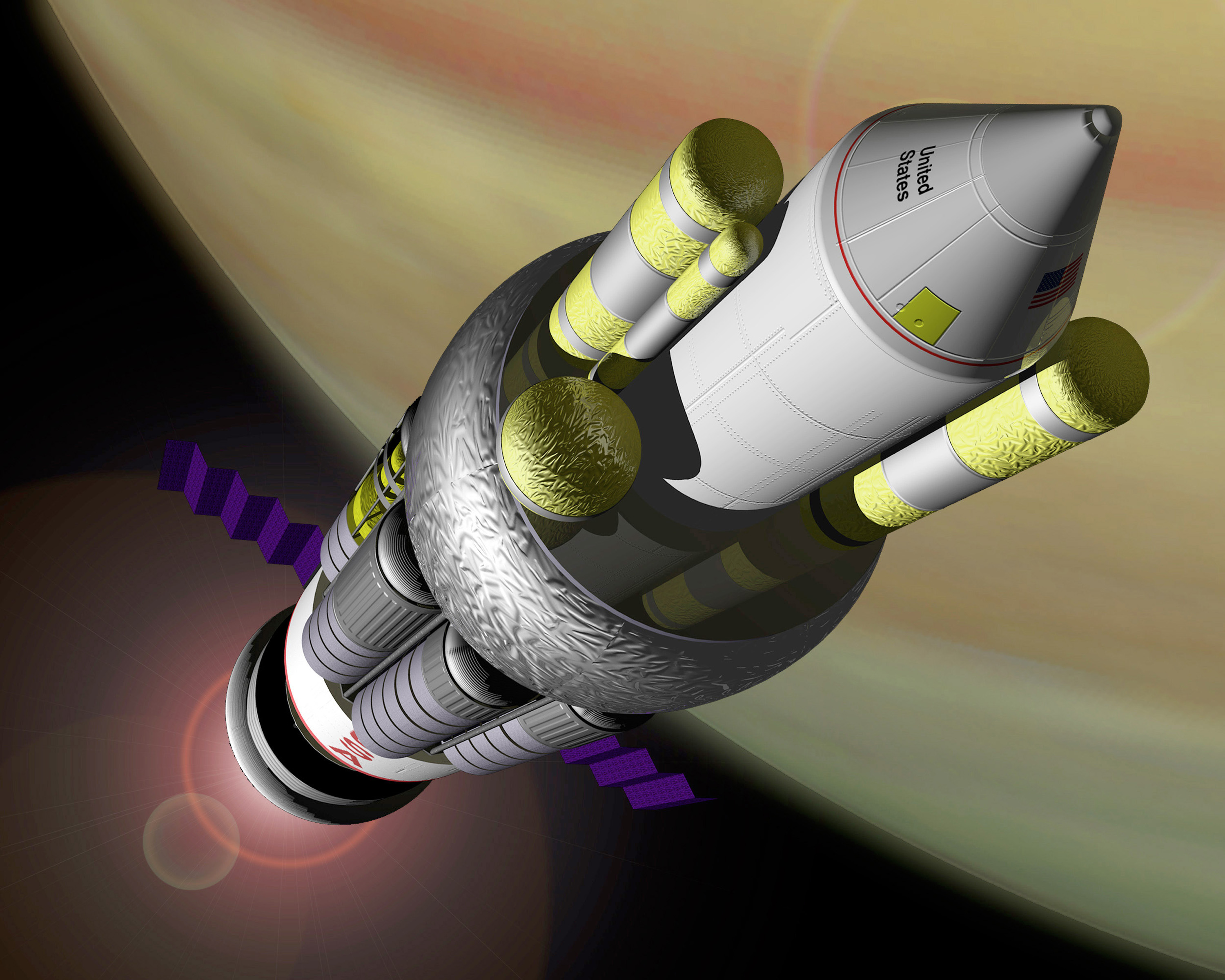 An artist's conception of Project ORION; from NASA. This picture shows NASA's reduced-size 6,000 ton version of the small-sized Project Orion craft. Three sizes were originally specified, from 10,000 to 8 million tons in Project Orion's initial report. The model shown can take off from Earth, and explore Saturn (shown in the background), refuel (with water for reaction mass) and return with a manned crew using a single-stage in fourteen months. The artist's depiction shows the craft about 4 milliseconds after the explosion of a nuclear propellant charge. The glow around the base of the craft is the ultraviolet-glowing plasma from the explosive recompressing against the pusher plate. The shock absorbers have not yet compressed. There are two shock absorbers: the doughnut near the plate, and the long tubes between the doughnuts and the capsule. The propellant charges and handling machinery are between the shock absorbers and the crew cabin. The two tubes on either side of the crew cabin are companionways. The pusher plate is approximately a meter thick, made of steel, and effectively shields the craft from radiation. Oil is sprayed on it on before each cycle to prevent ablation. The explosives are nuclear shaped charges ejected by a gas gun through the pusher plate. This design has about one one-kiloton explosion per second when under thrust. The specific impulse is (conservatively) 2,000 seconds. The craft can be made from steel, using construction techniques similar to those of submarines. Project ORION craft are not in use because poisonous fallout is created by the known designs for nuclear explosives.